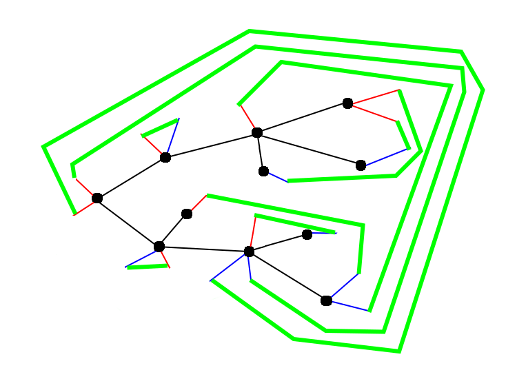 A planar map obtained by completing a blossom tree. The completing edges are shown in green.